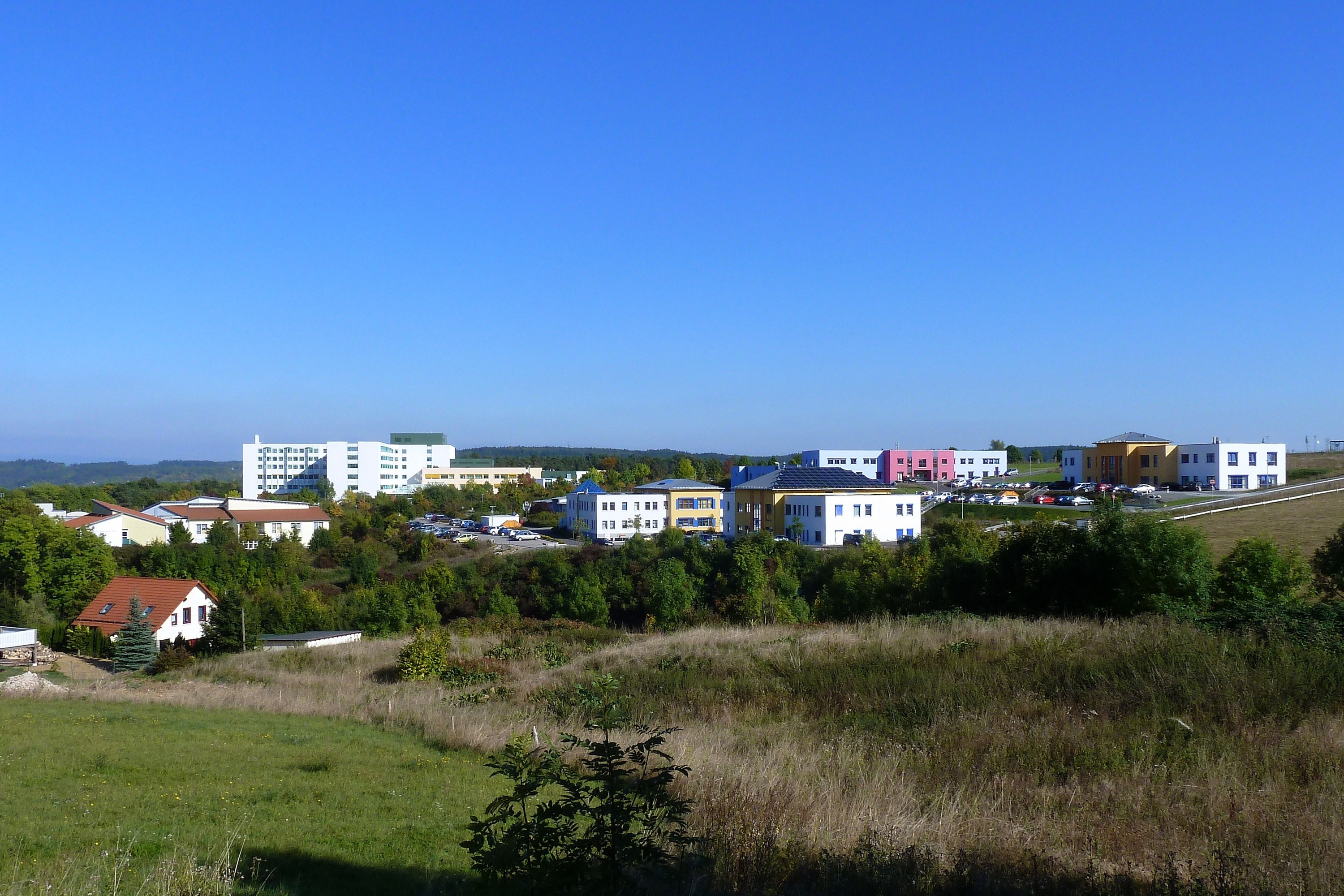 Complex health center with hospital, medical centers, dialysis center, dementia center and nursing home in city Meiningen, germany.